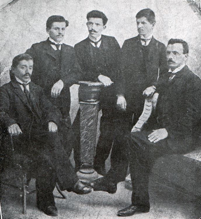 Group Photo of Frachkovtsi Family